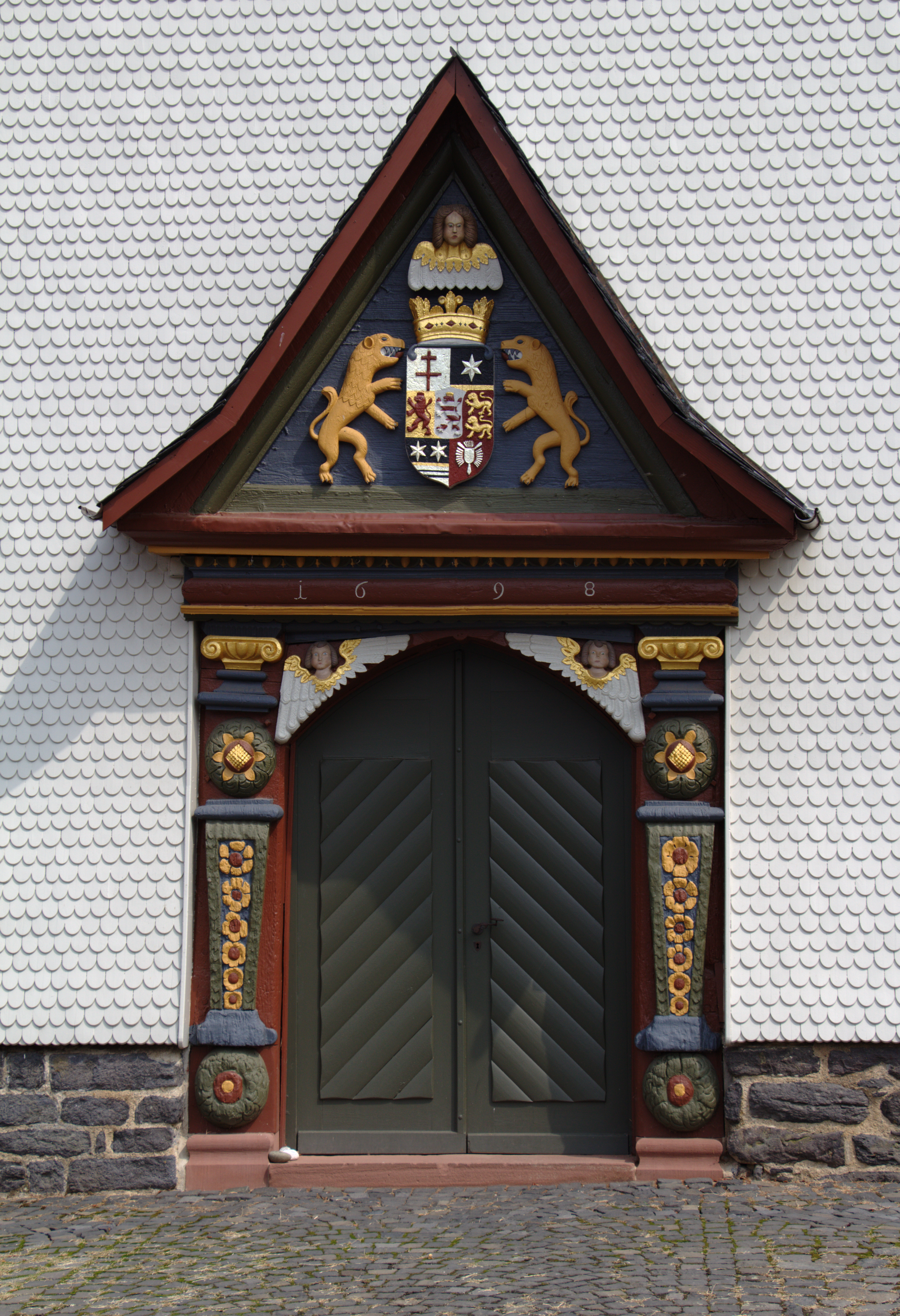 Protestant church (portal) in Muecke Sellnrod, Hesse, Germany